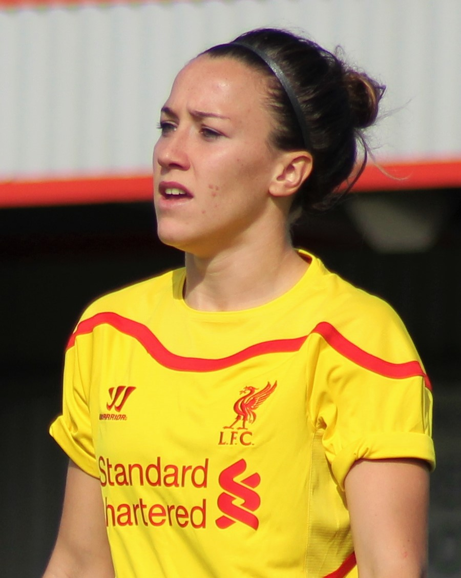 Rachel Yankey of Arsenal Ladies and Lucy Bronze of Liverpool Ladies during a WSL game.